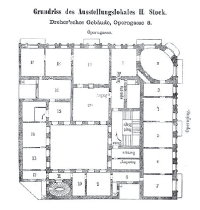 Ground Plan Building of the Dreher Clan, Operngasse, Vienna